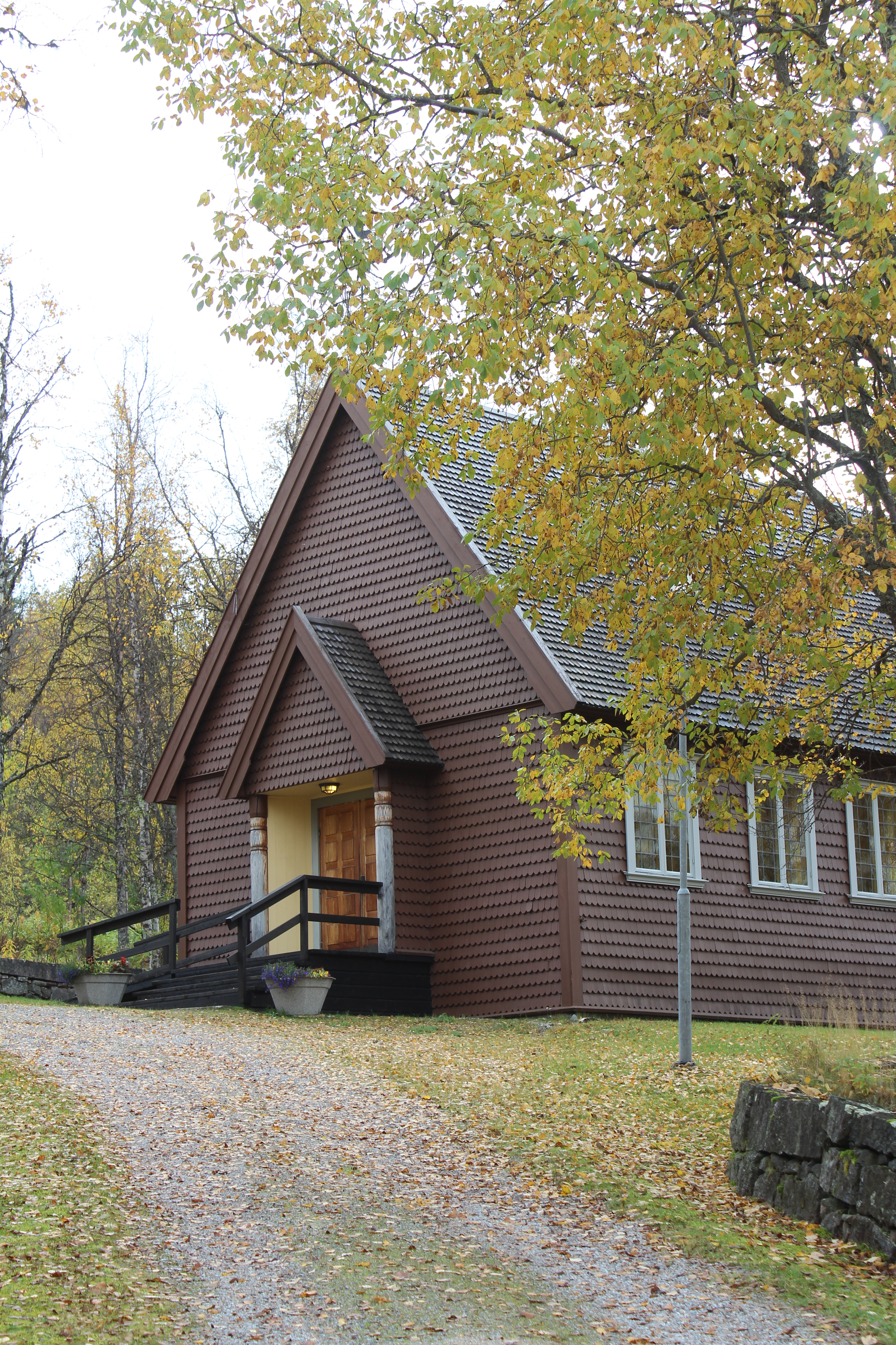 strömgatan , Porjus , lappland , Sweden